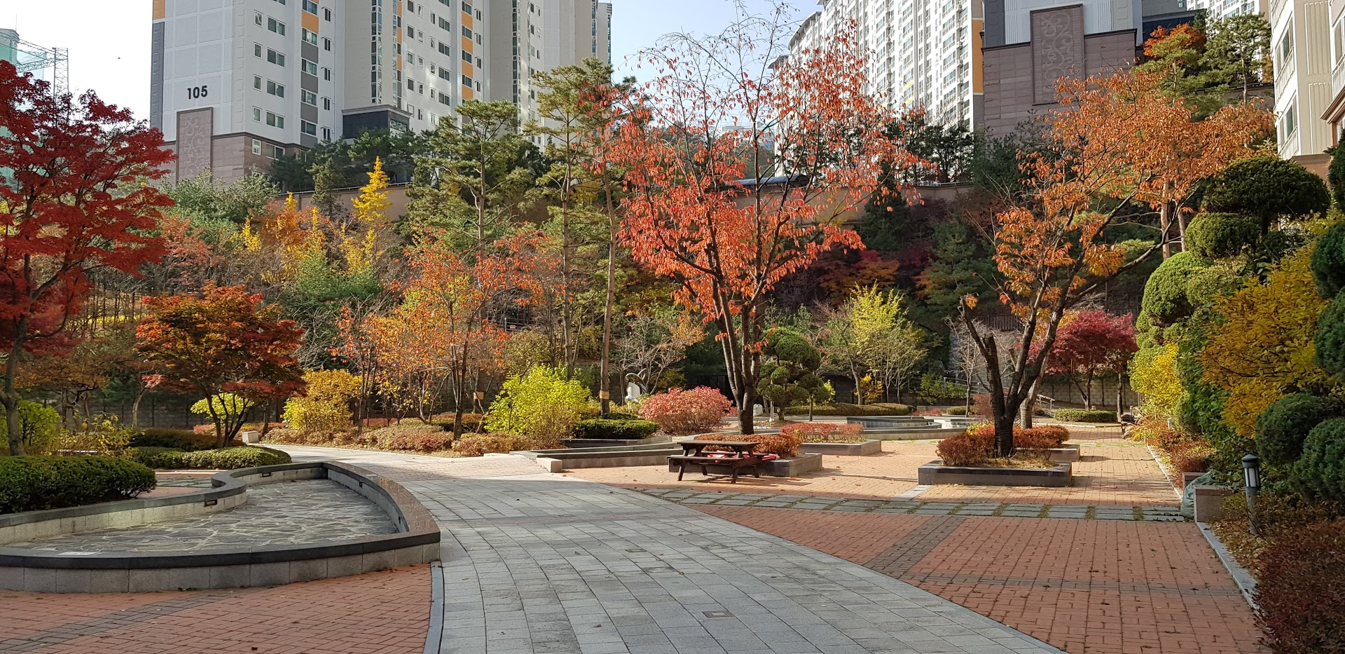 autumn leaves of Chongmyug lake village in Yongin Hagaldong